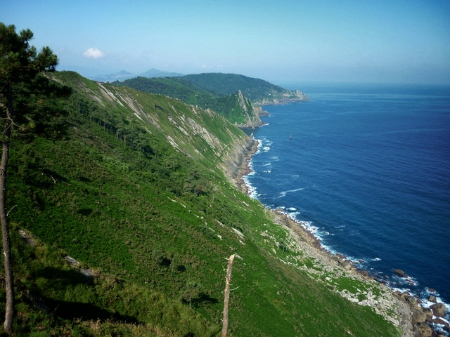 Jaizkibel cliff and the entrance to the Bay of Pasaia